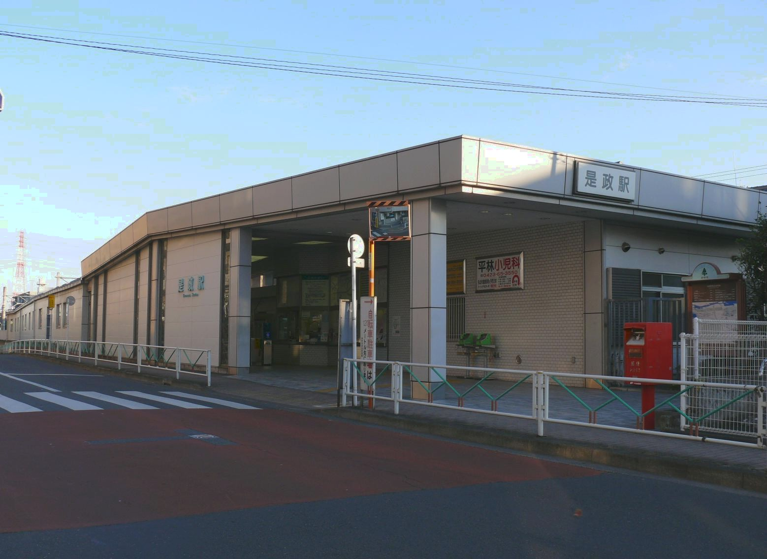 Seibu-Railway Koremasa-station(Japan, Fuchu-City). 西武多摩川線の是政駅の駅舎。駅の所在地は東京都府中市是政。